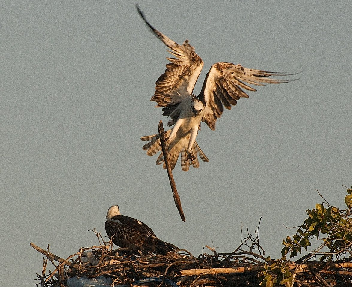 Two Osprey building a nest on an island 90 minutes from the Belize mainland. There are plastic materials in the nest.